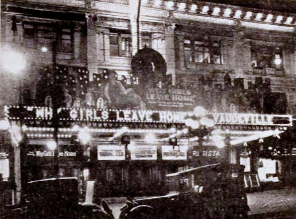 The Prospect Theater in Brooklyn, New York, showing the American drama film Why Girls Leave Home (1921), on page 47 of the December 3, 1921 Exhibitors Herald.